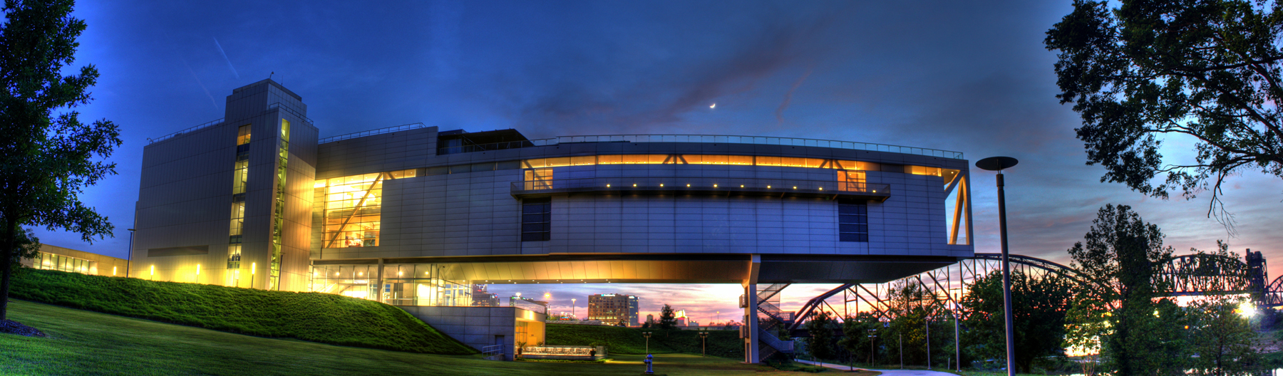 Night view of the William Clinton Presidential Center in Little Rock, AR.